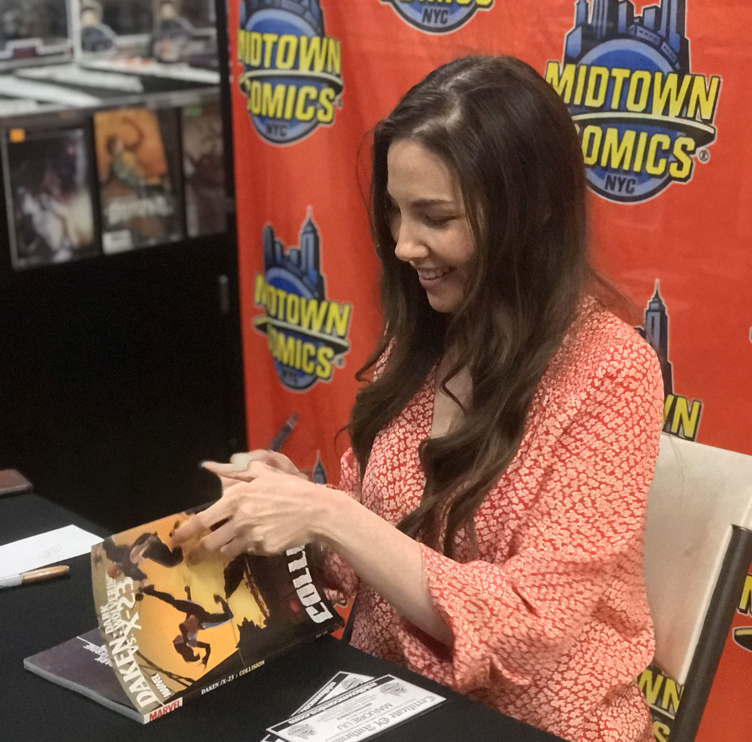 Horror/fantasy novelist and comic book writer Marjorie Liu at a May 30, 2019 signing for Monstress #22 at Midtown Comics Downtown in Manhattan. In the photo above, Liu is signing a copy of the 2011 Daken/X-23: Collision trade paperback, which collects the 2010 "Collision storyline from the Daken: Dark Wolverine and X-23 series that Liu wrote. This photo was created by Luigi Novi. It is not in the public domain, and use of this file outside of the licensing terms is a copyright violation.